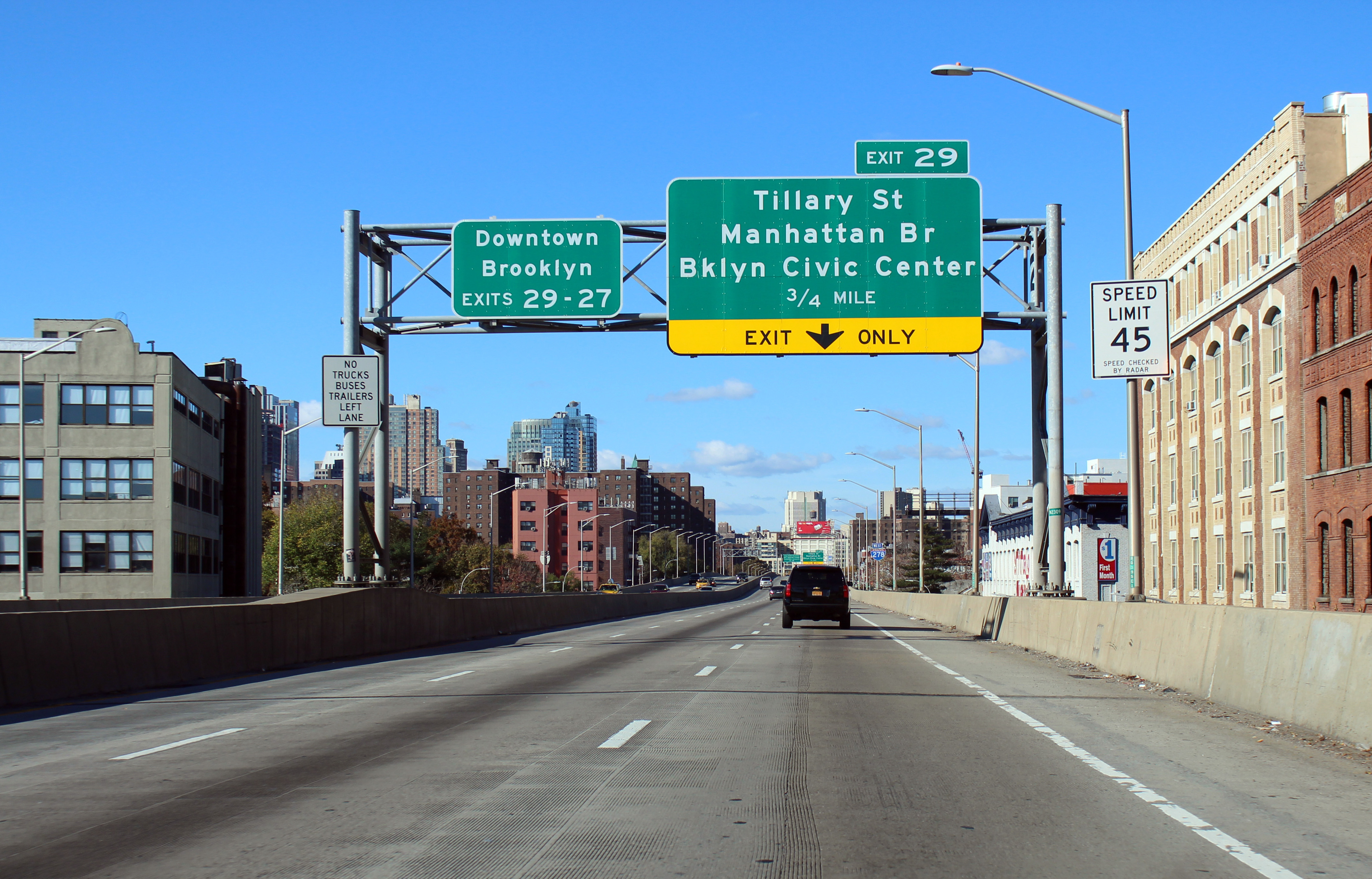 Interstate 278 southbound approaching Brooklyn Civic Center. Photographed on November 6, 2016 by user Coolcaesar.